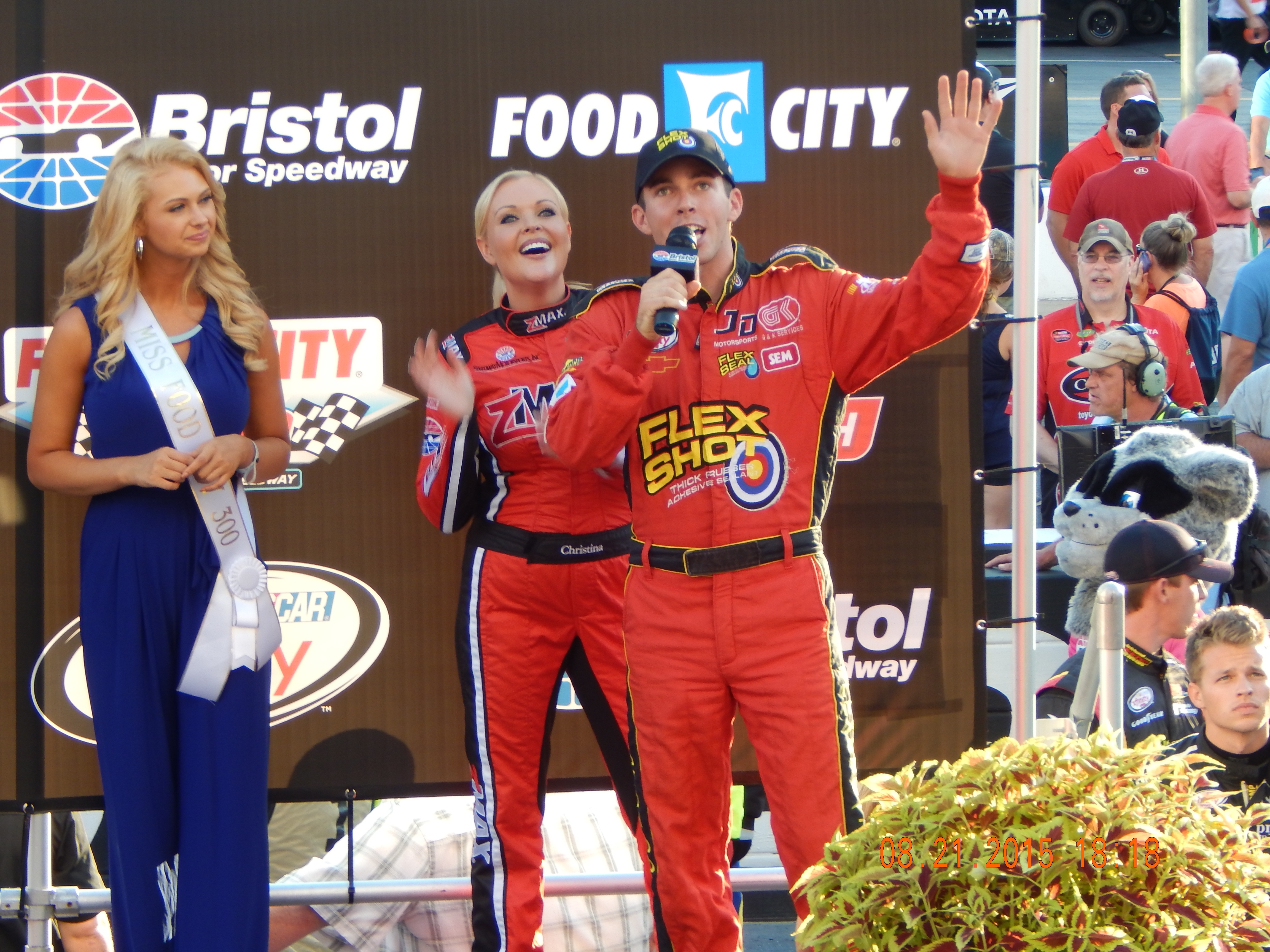 Ross Chastain being introduced at Bristol Motor Speedway for the 2015 Food City 300.